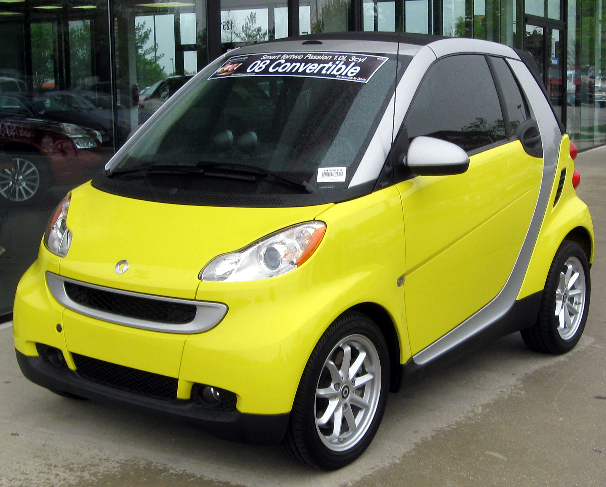 2008 Smart ForTwo photographed in Silver Spring, Maryland, USA.